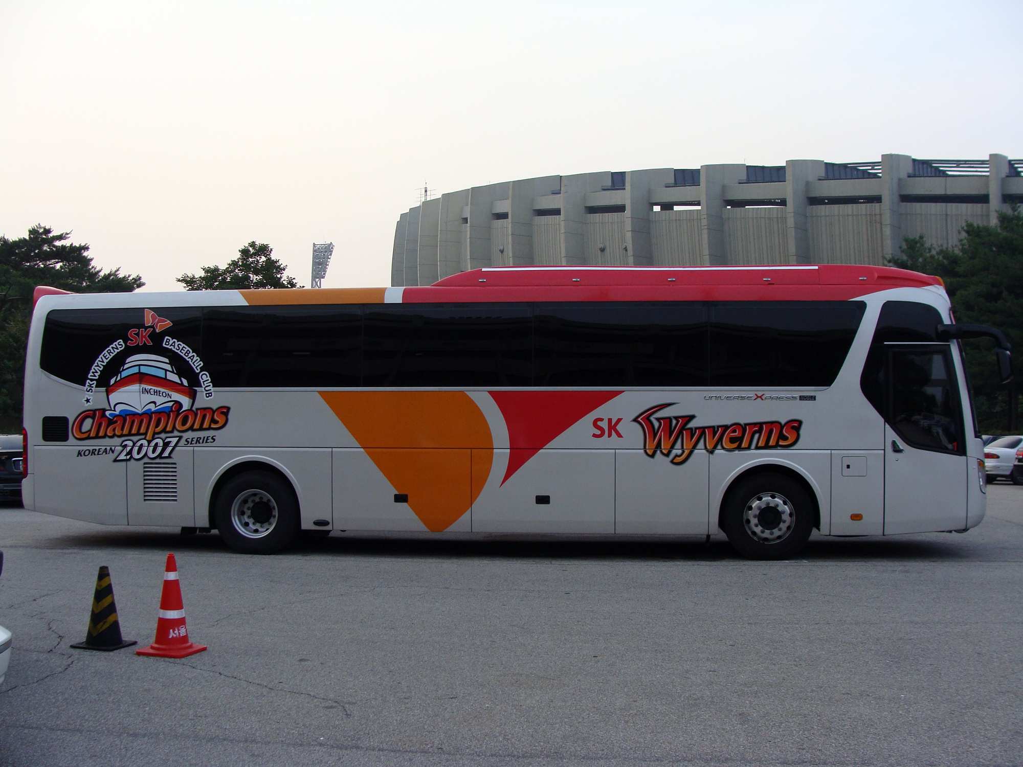 Hyundai Universe for SK Wyverns which taken at Ballpark of Jamsil Sports Complex